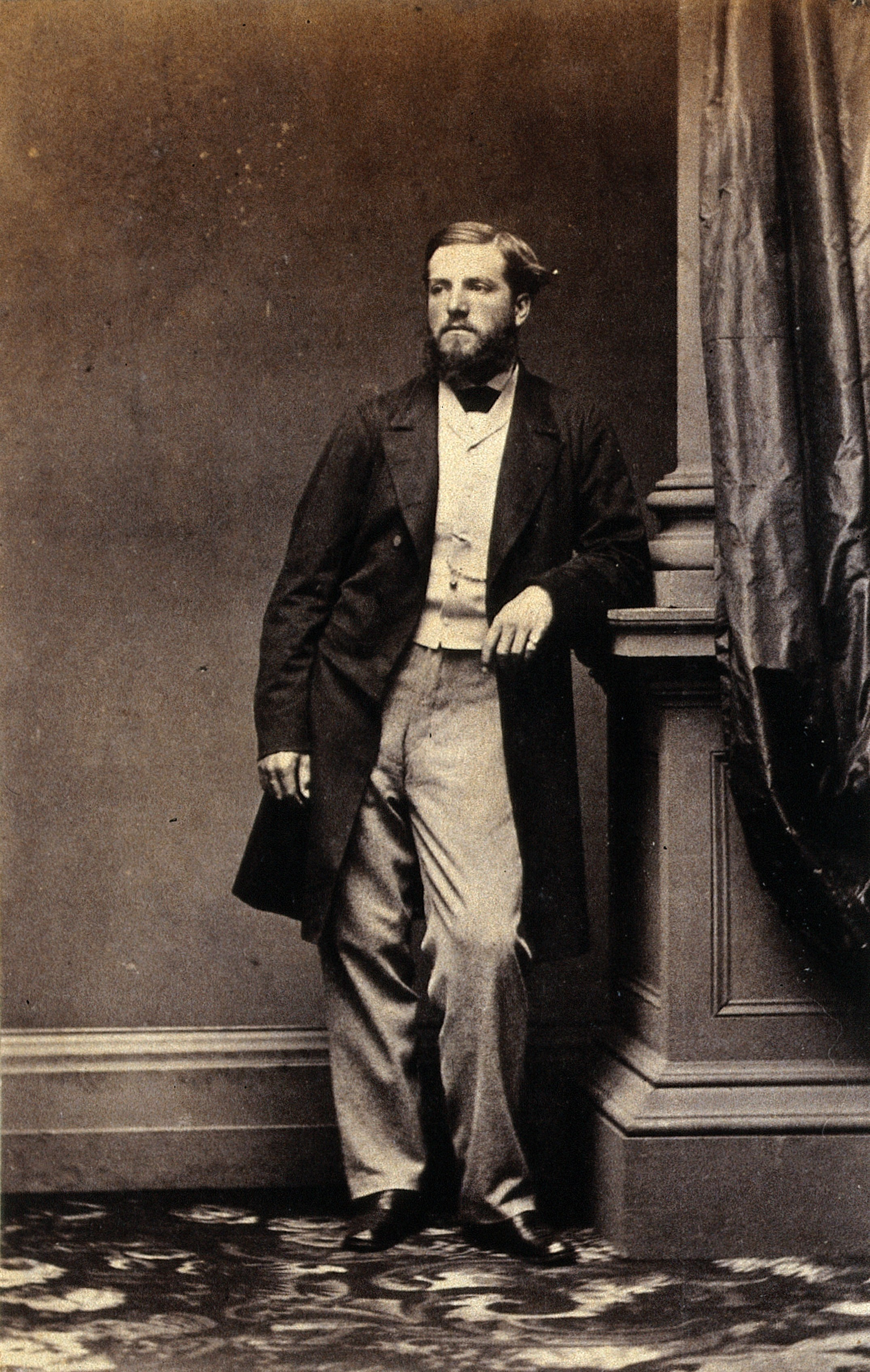 Sir Dyce Duckworth. Photograph, 1863. Iconographic Collections Keywords: portrait photographs